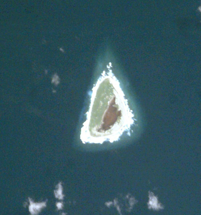 NASA astronaut image of Rawaki Island (Kiribati) in the Pacific Ocean